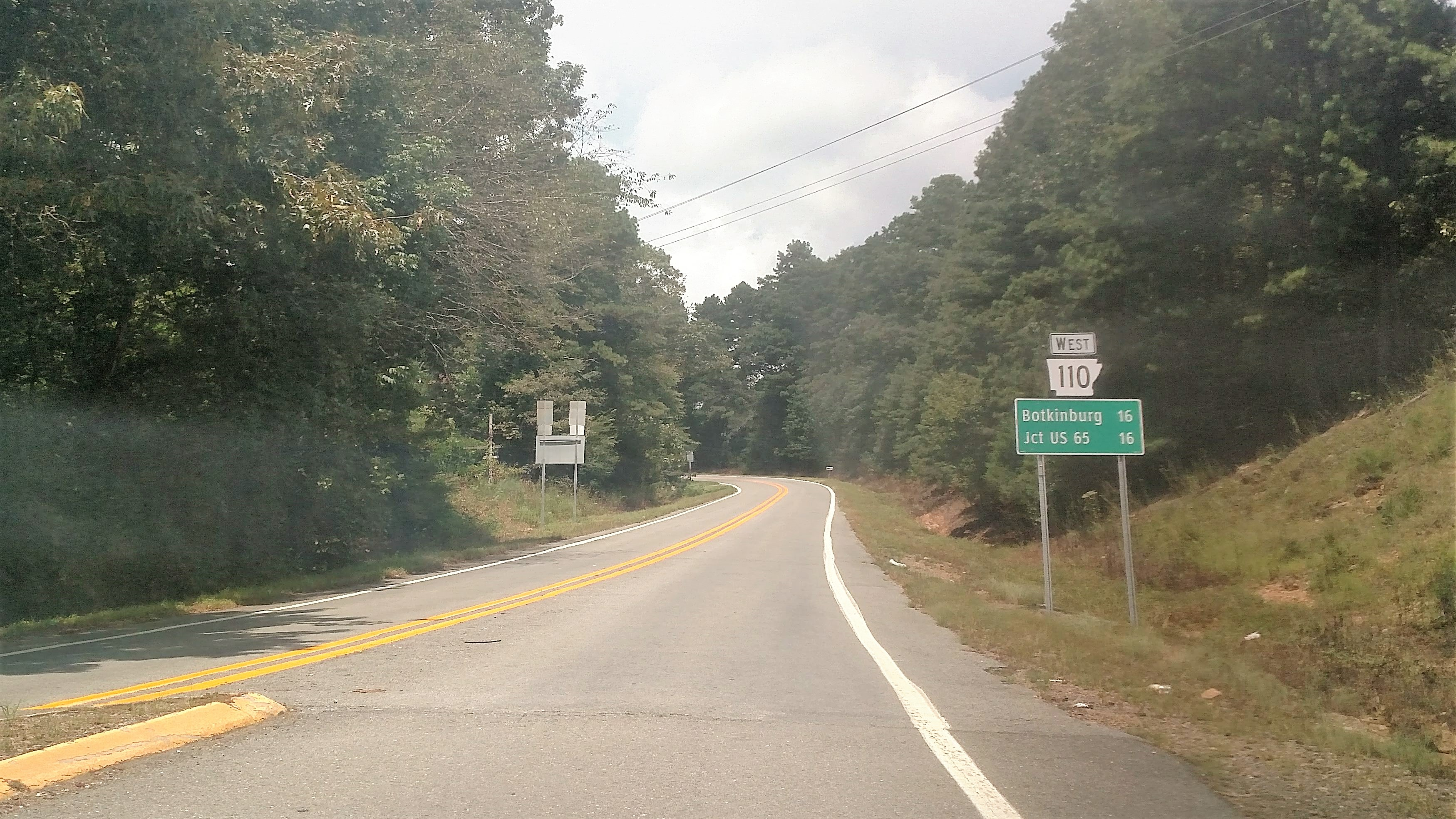 First reassurance marker for Arkansas Highway 110 after the Highway 9/16 junction west of Shirley, Arkansas